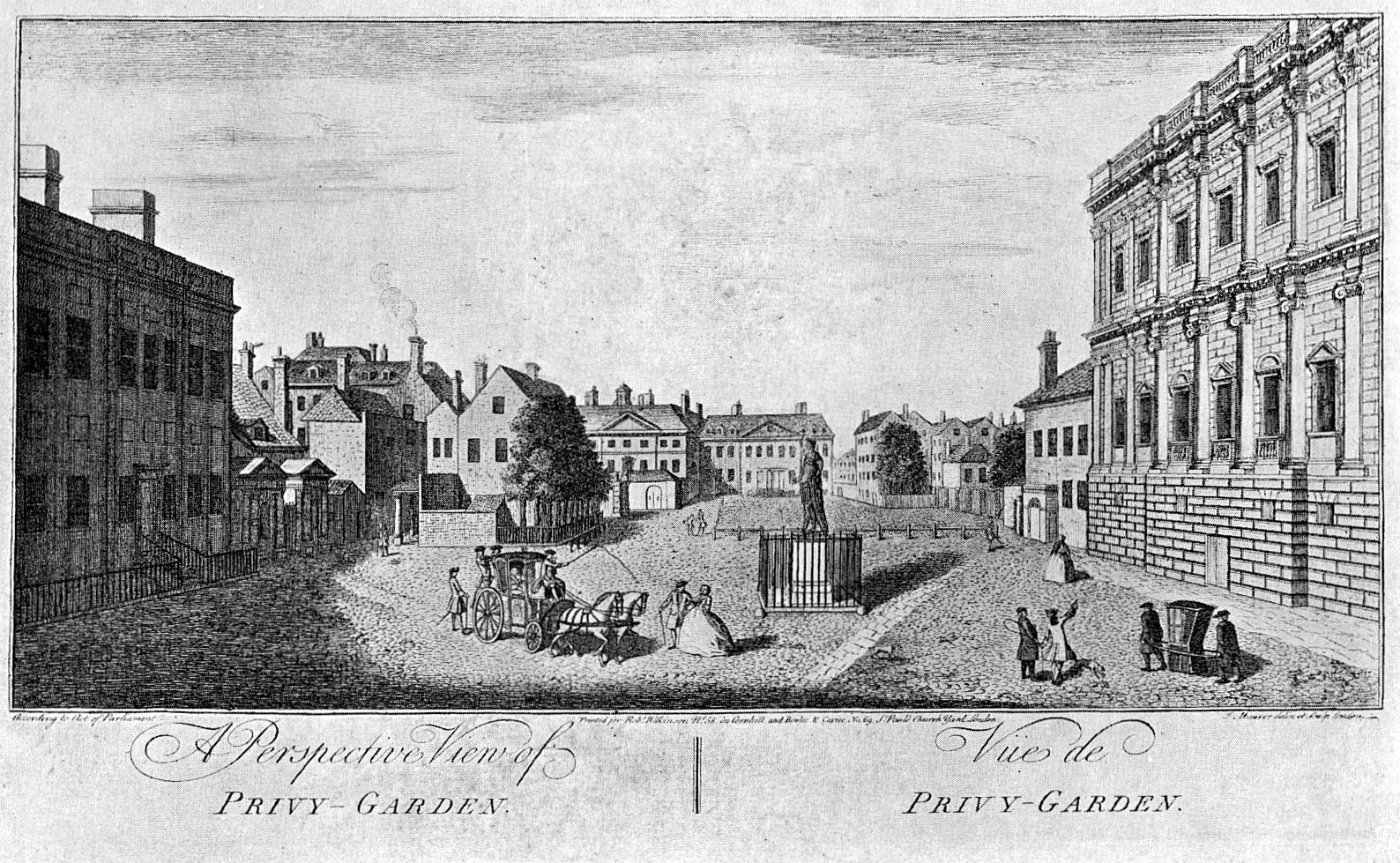 Privy Gardens in 1741, also showing the statue of James II that is now in Trafalgar Square